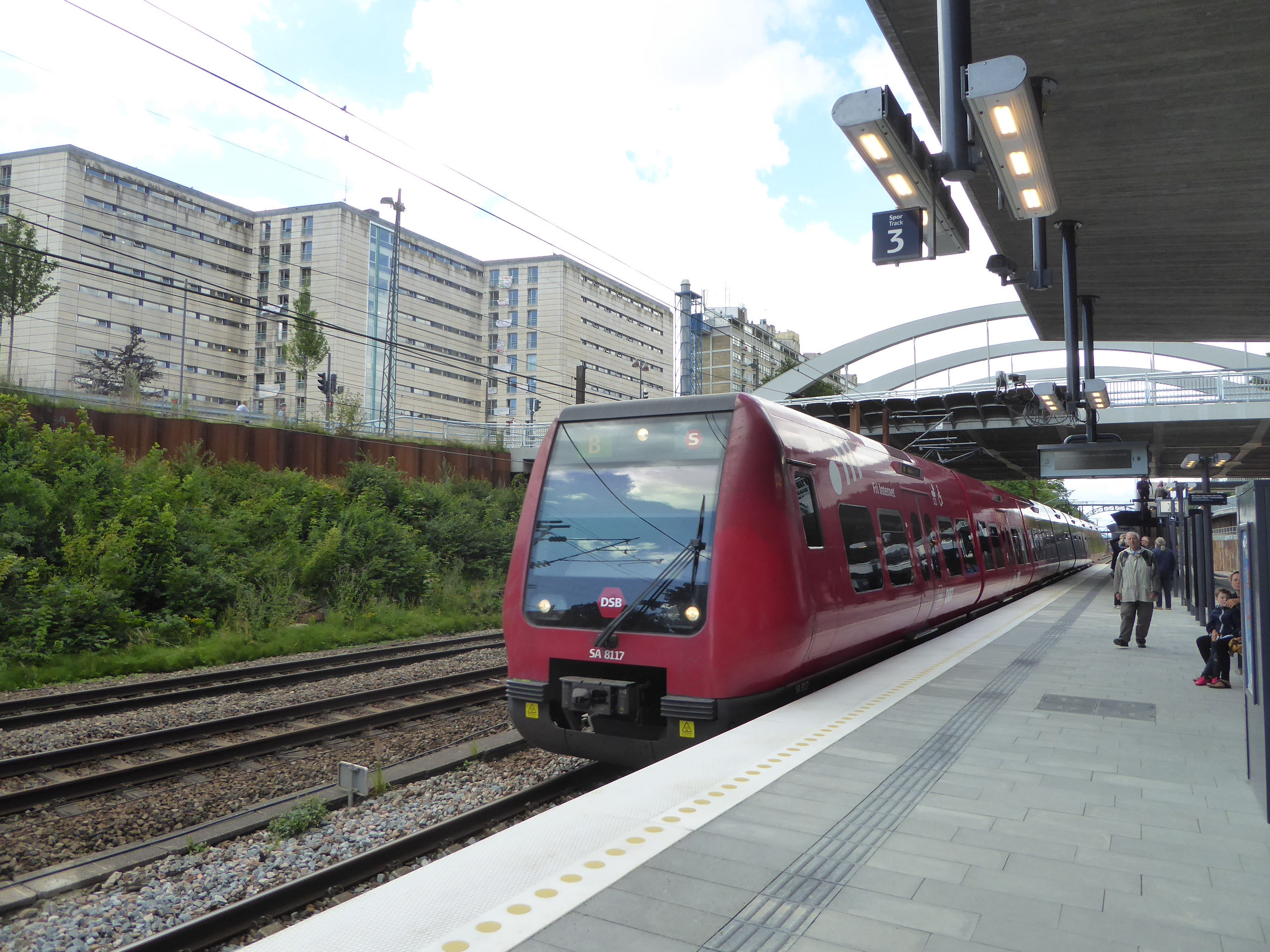 The opening day of the S-train station Carlsberg Station in Copenhagen. S-train line B for Farum.